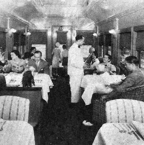 Photo of the dining-club-observation car of the Great Northern train "Winnipeg Limited".